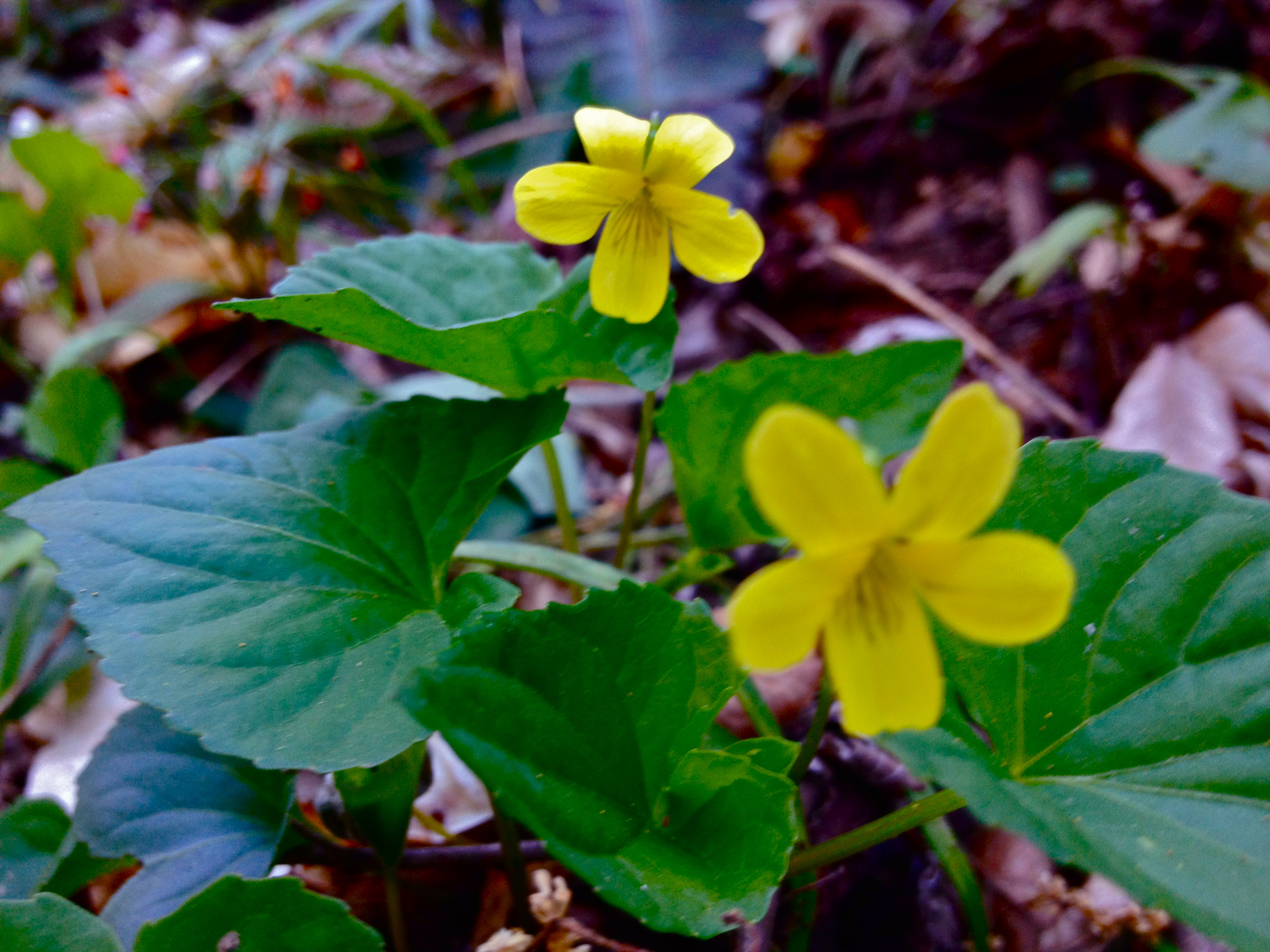 Photo of Viola pubescens in flower. This is a native plant growing wild in the C & O Canal National Historic Park, Montgomery county Maryland, USA. This species is a member of the Violaceae family.